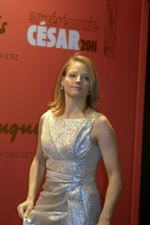 Jodie Foster in Paris at the César awards ceremony